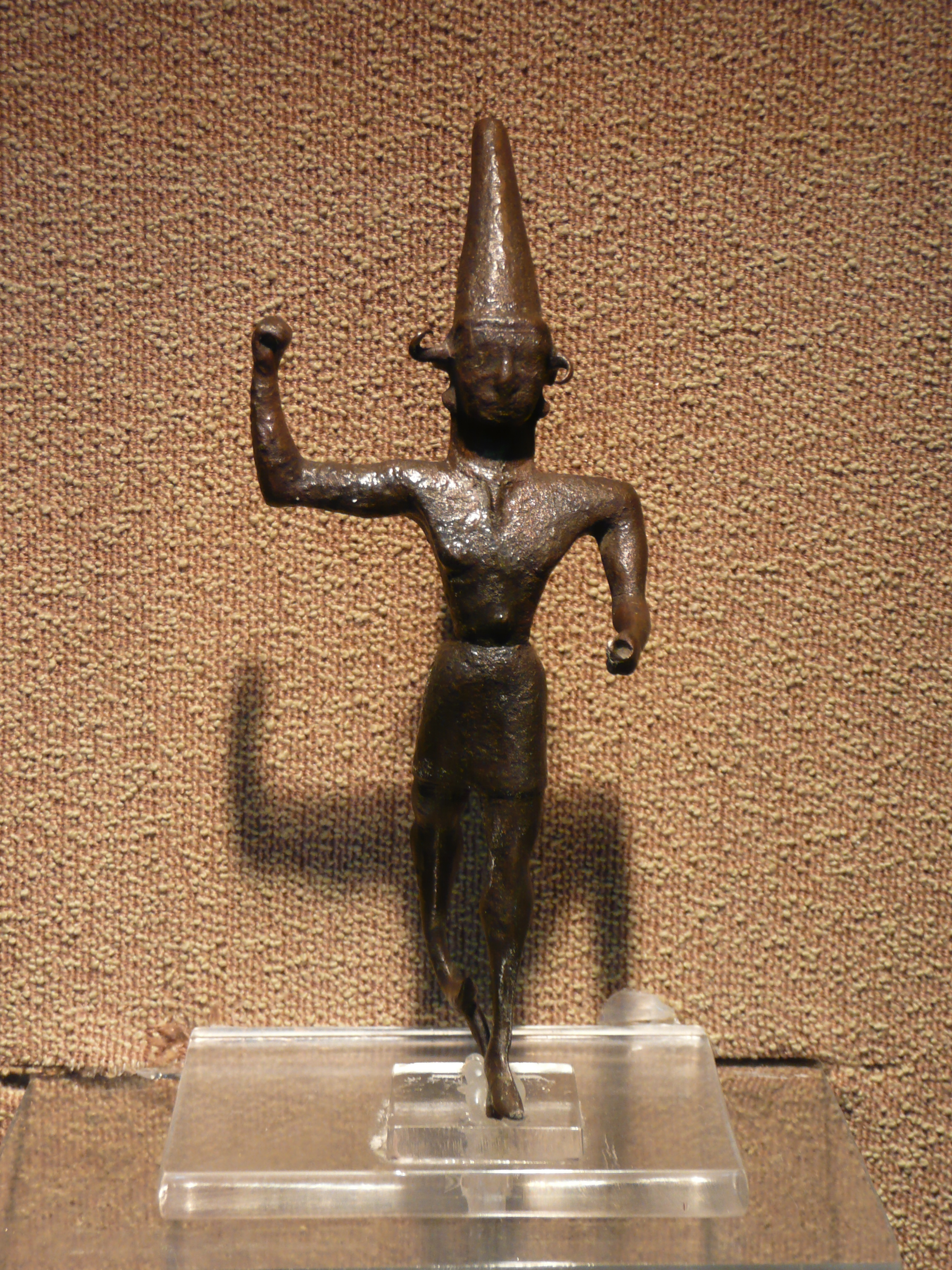 Bronze statue of a God; height : 11.4 cm; found at Dövlek; 16th-15th c. BC; Located at The Museum of Anatolian Civilizations is situated in Ankara, Turkey. It is one of the leading museums in the world for its unique collection of the ancient history of Anatolia.